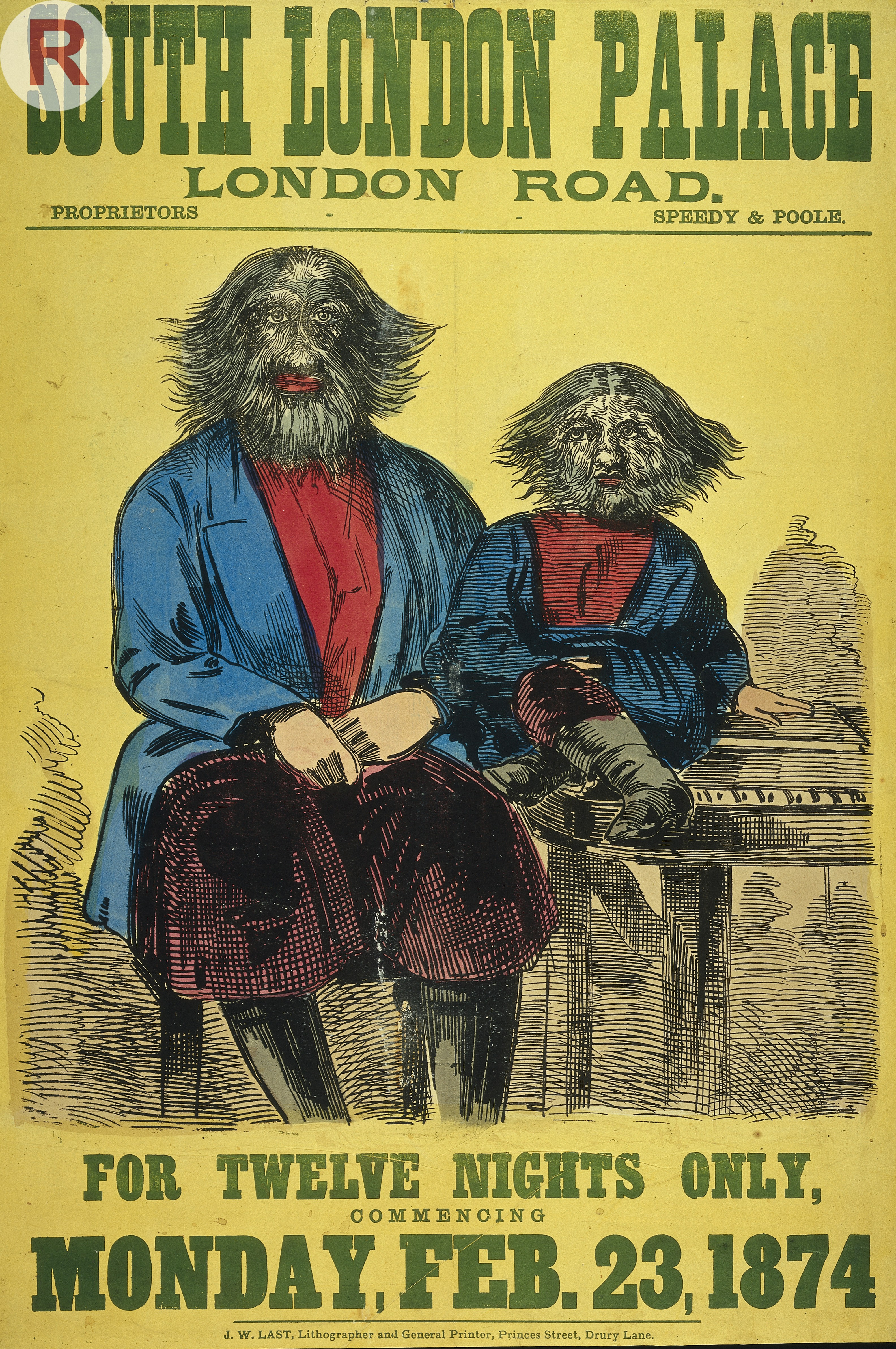 Poster lithograph [Hairy Man and His Son] "South London Palace, London Road. For twelve nights only commencing Monday, Feb. 23, 1874." J. W. Last Lithographer. Princes Street, Drury Lane. Wellcome Images Keywords: bf 24b/89